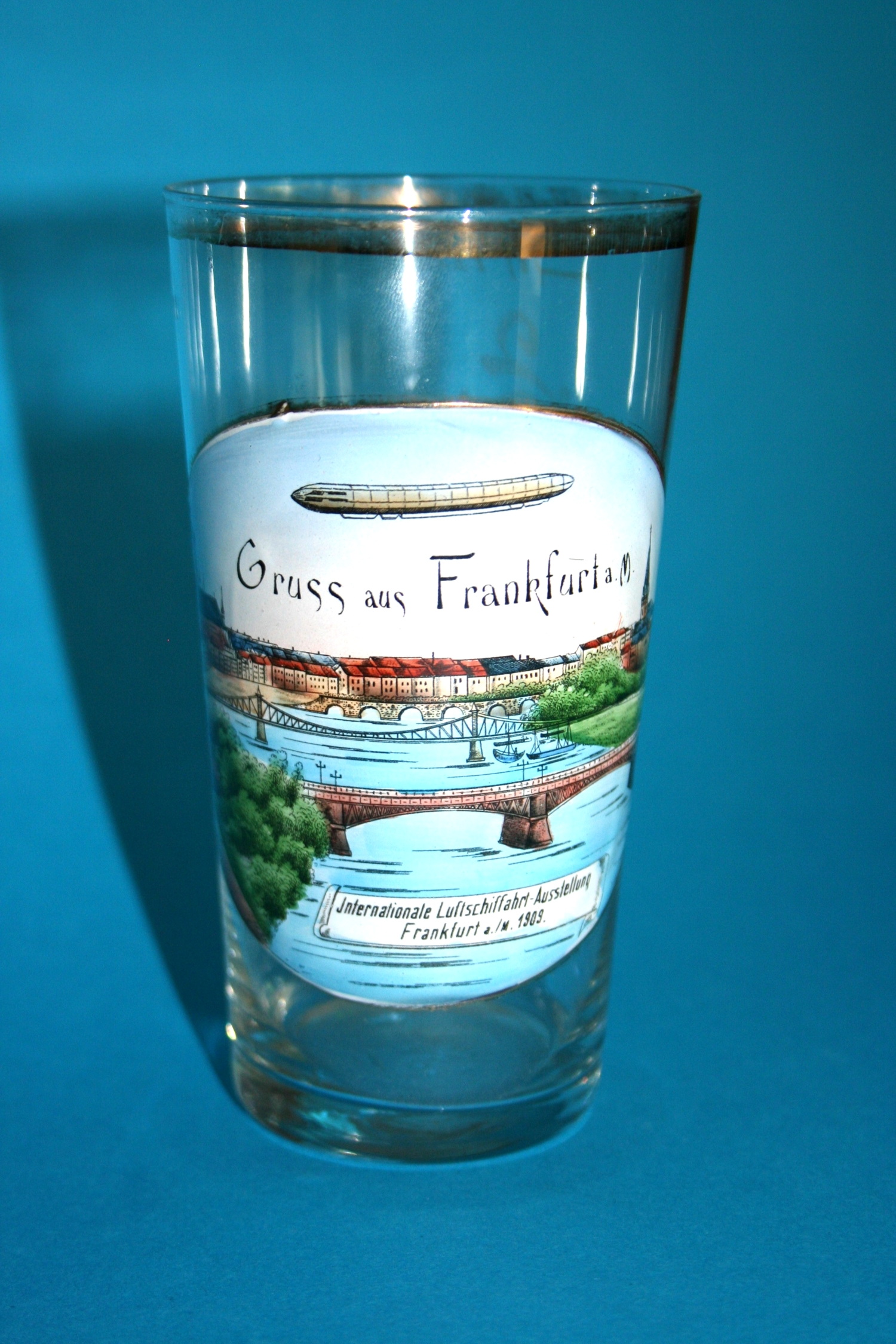 Souvenir beaker Gruss aus Frankfurt a.M. / Internationale Luftschiffahrt-Ausstellung Frankfurt a./M. 1909, gilt-rimmed drinking glass.